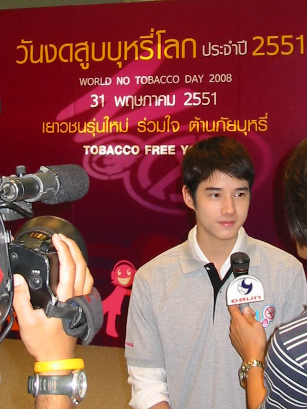 Mario Maurer interviewing on World No Tobacco Day